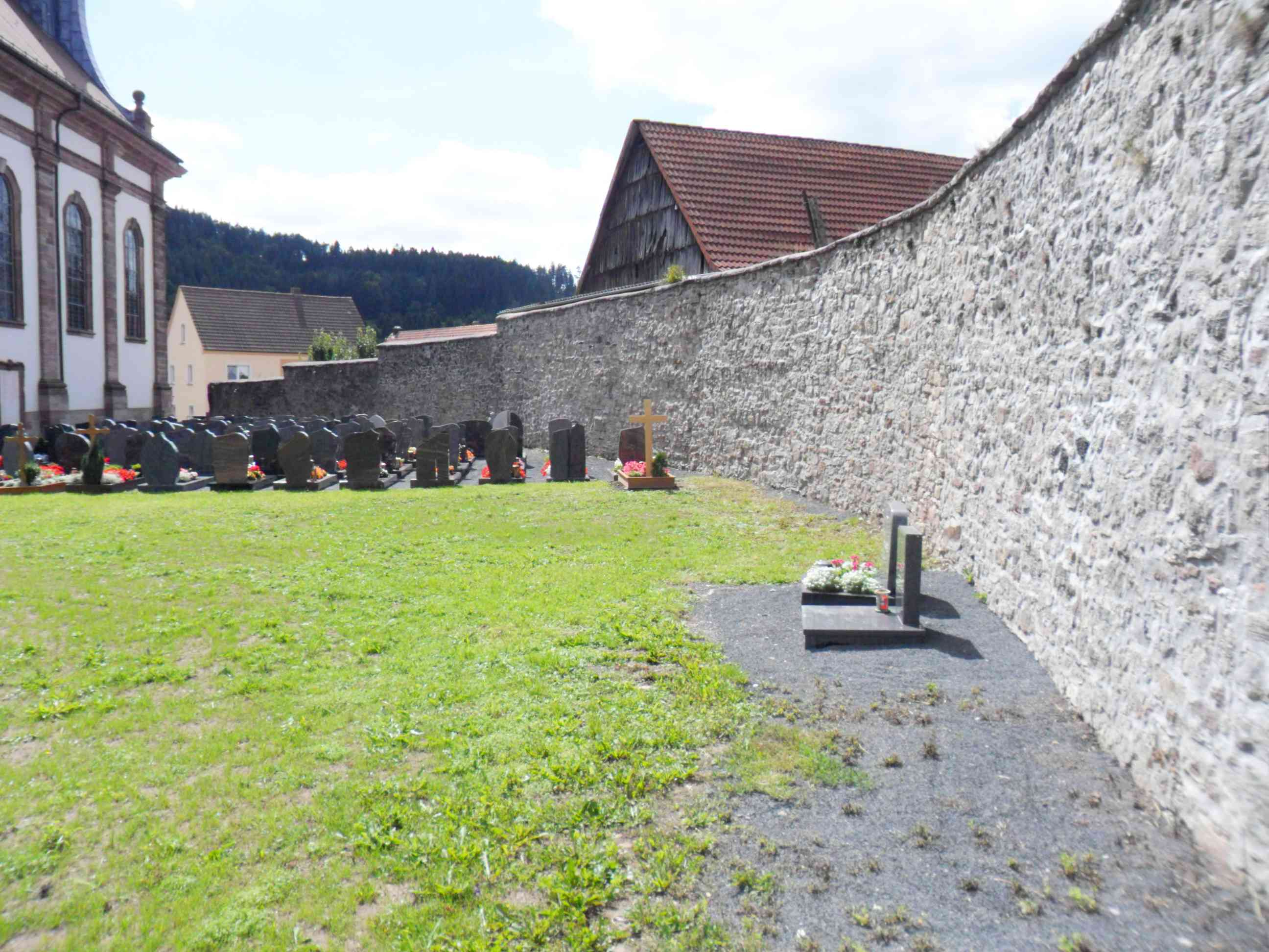 Schleid (former church-castle); district of Wartburg; Federal State (free state) of Thuringia; Germany